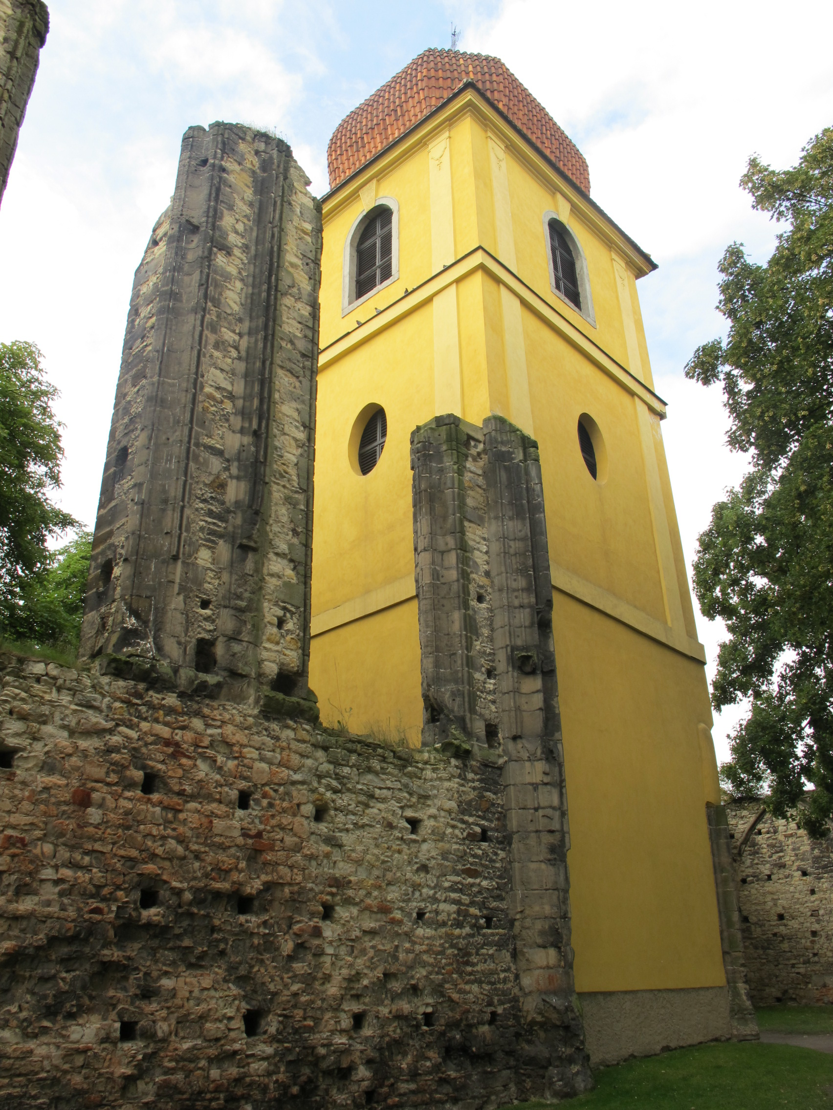 Monastery in Panenský Týnec - the tower of the unfinished church